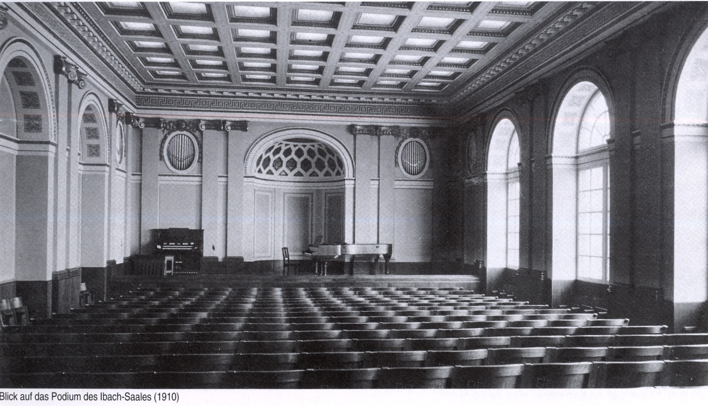 Ibach-Haus, Schadowstraße 52, Düsseldorf, Bauherr Photograph Th. Lantin, erbaut 1900, Architekten Gottfried Wehling und Alois Ludwig, Ibach-Saal, Blick auf Podium, entworfen von Architekt Richard Hultsch, 1910.jpg